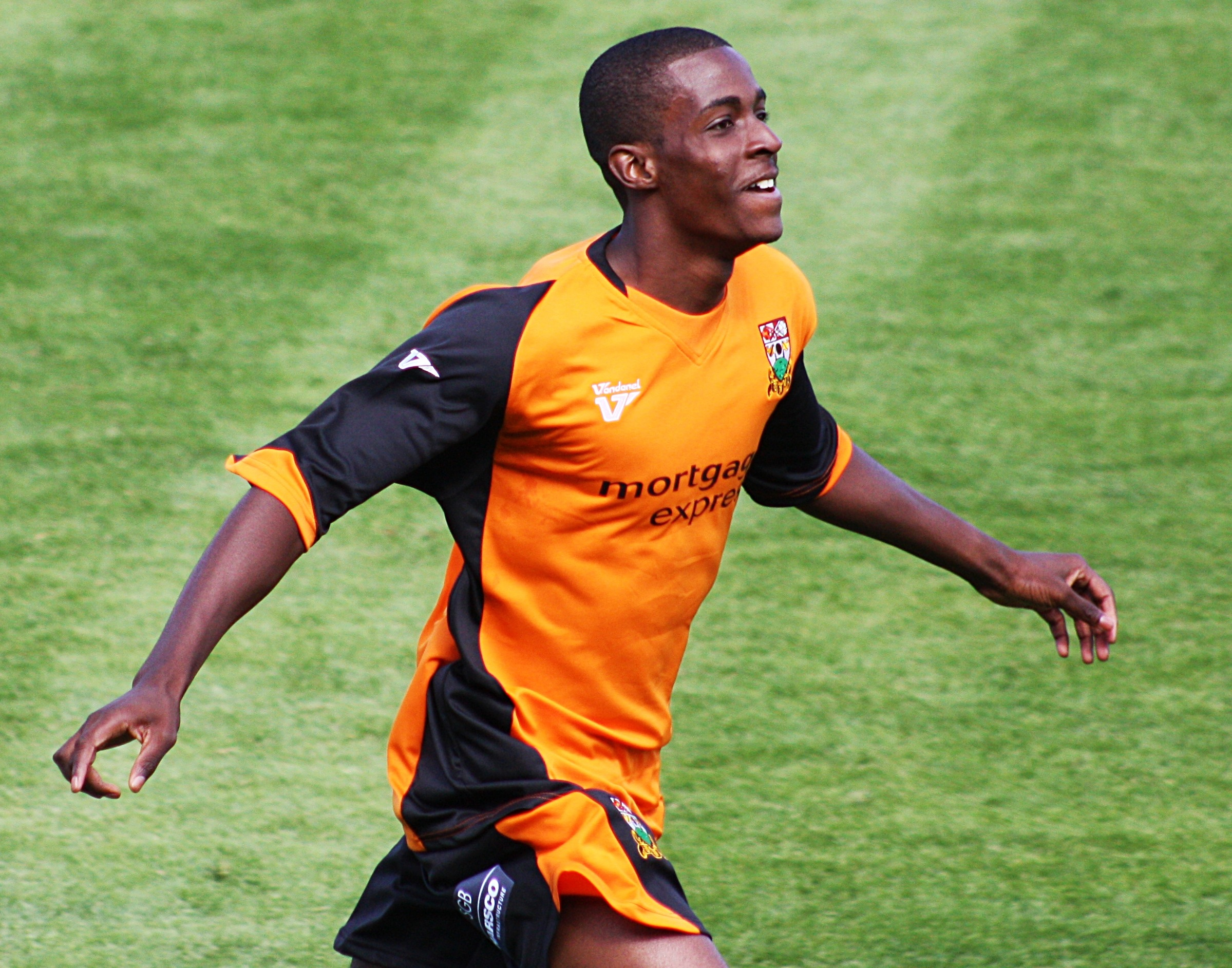 Elliott Charles of Barnet F.C. celebrating a goal against Arsenal F.C. in a pre-season friendly match. This file has been extracted from another file: Elliott Charles celebrating.jpg